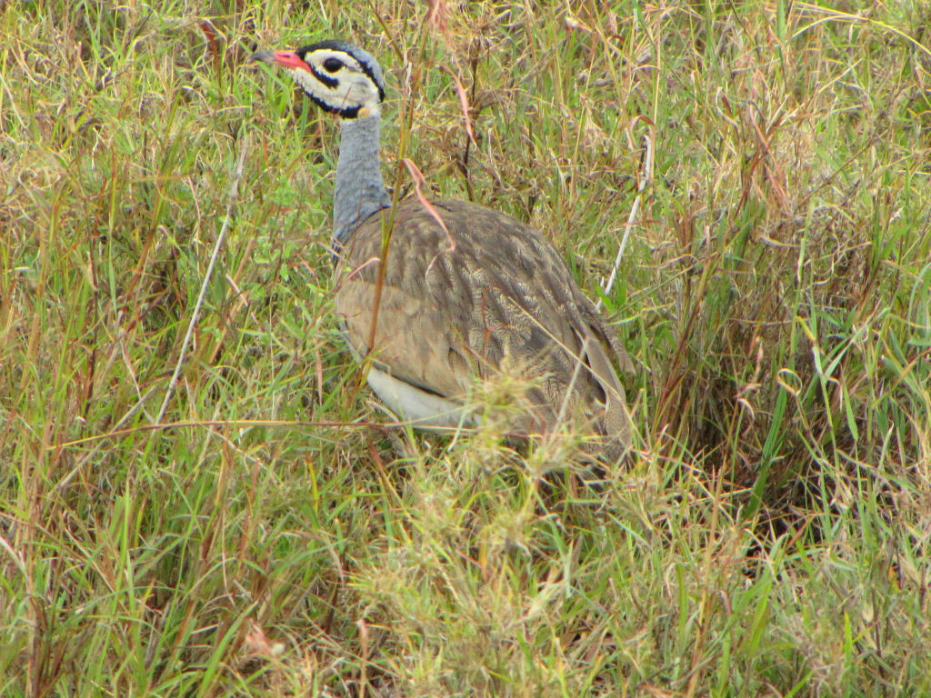 White-bellied Bustard (Eupodotis senegalensis erlangeri), male, Serengeti Park, Tanzania